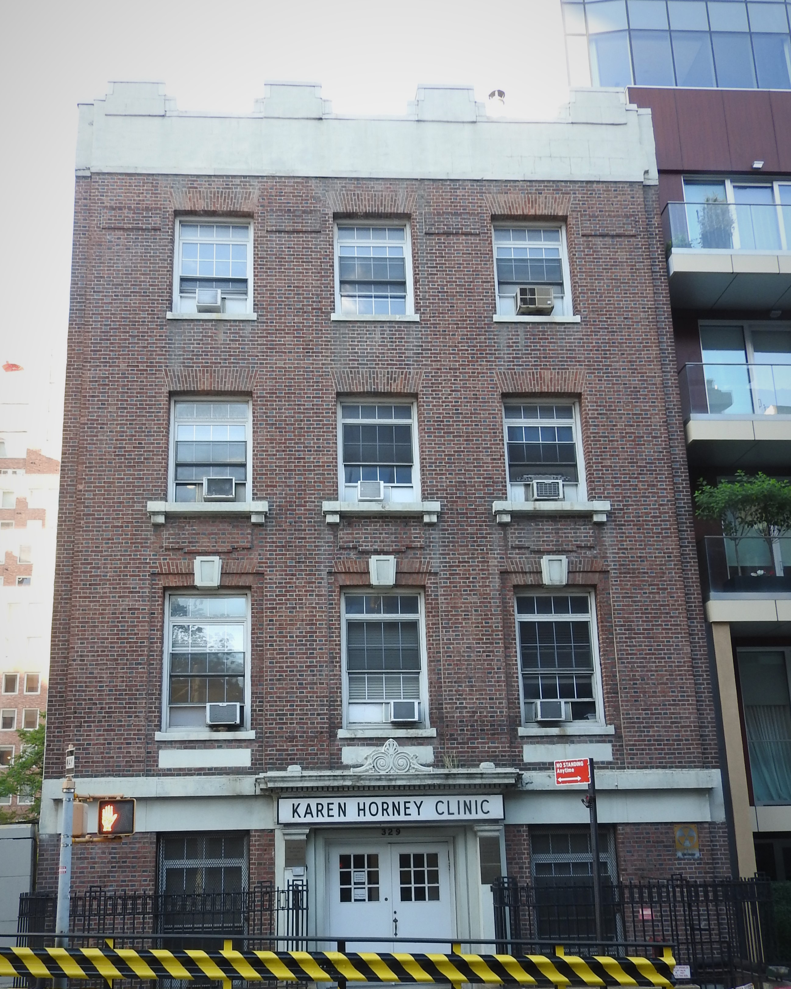 Looking north across 62nd Street on a sunny day